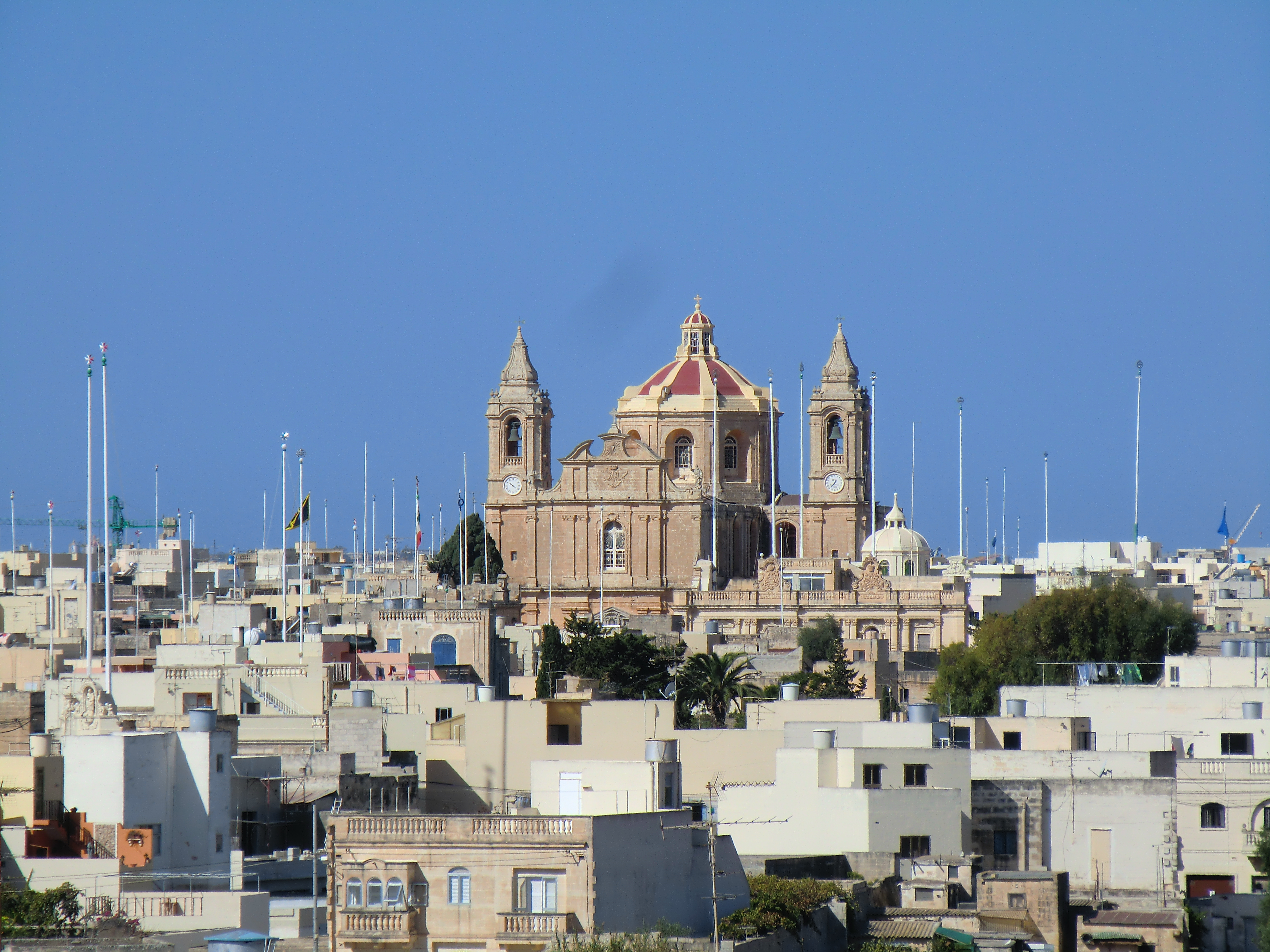 Għaxaq